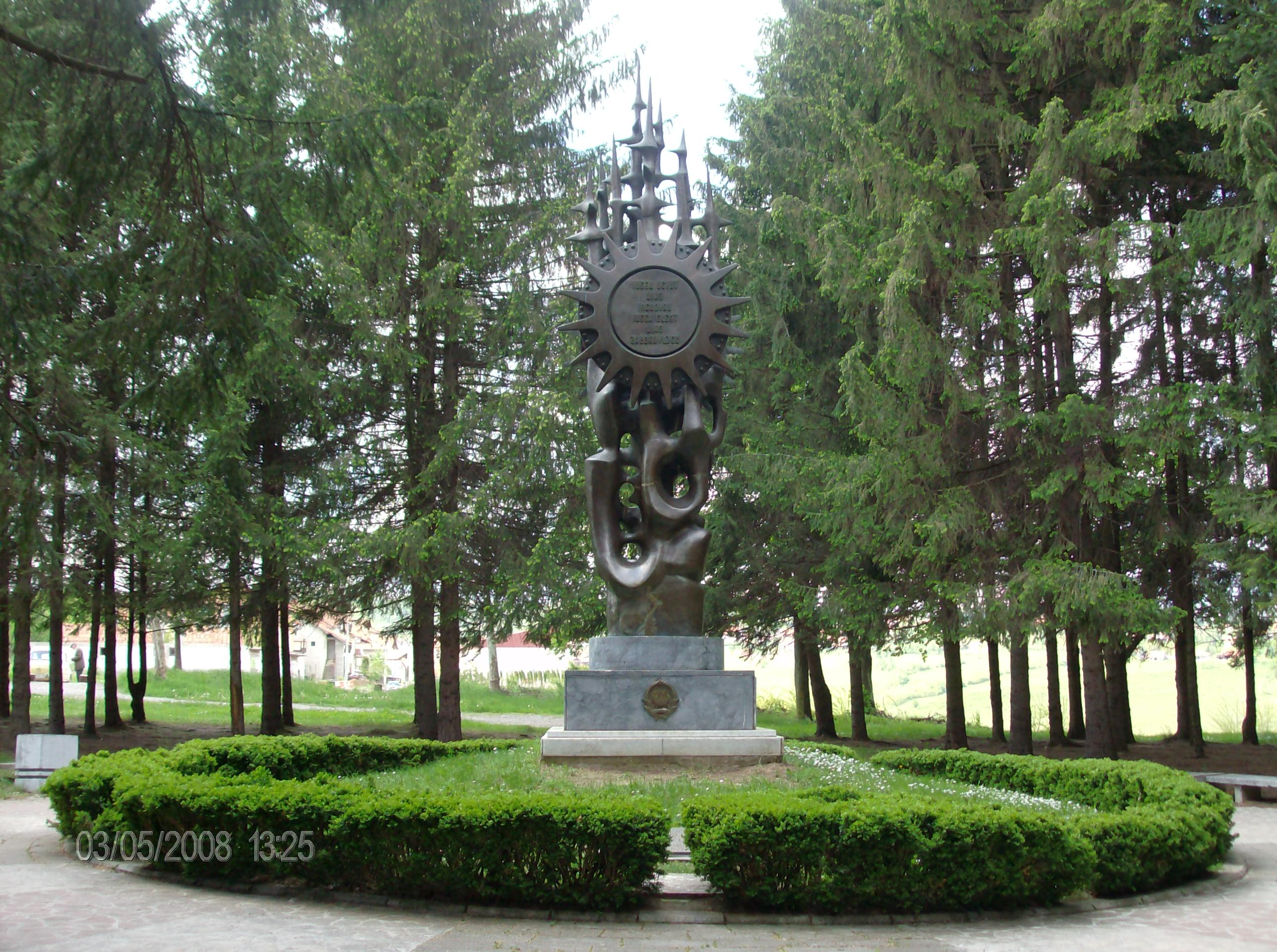 Monument on Brdo Mira in Gornji Milanovac, Serbia